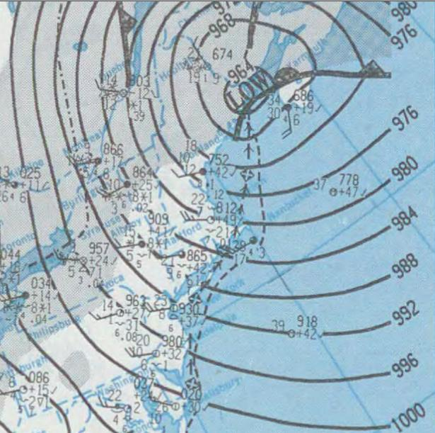 Surface weather analysis of a nor'easter on 5 February 1995.